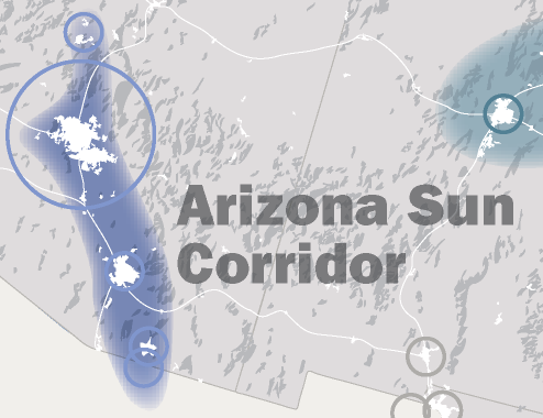 This map, created by the Regional Plan Association, illustrates the Arizona Sun Corridor megaregion